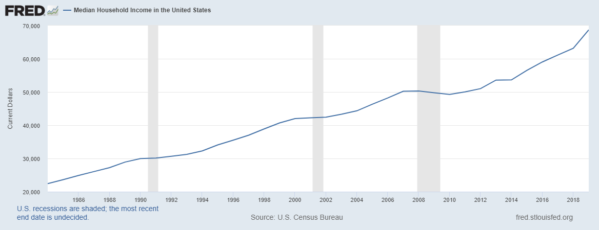 Median US household income through 2018